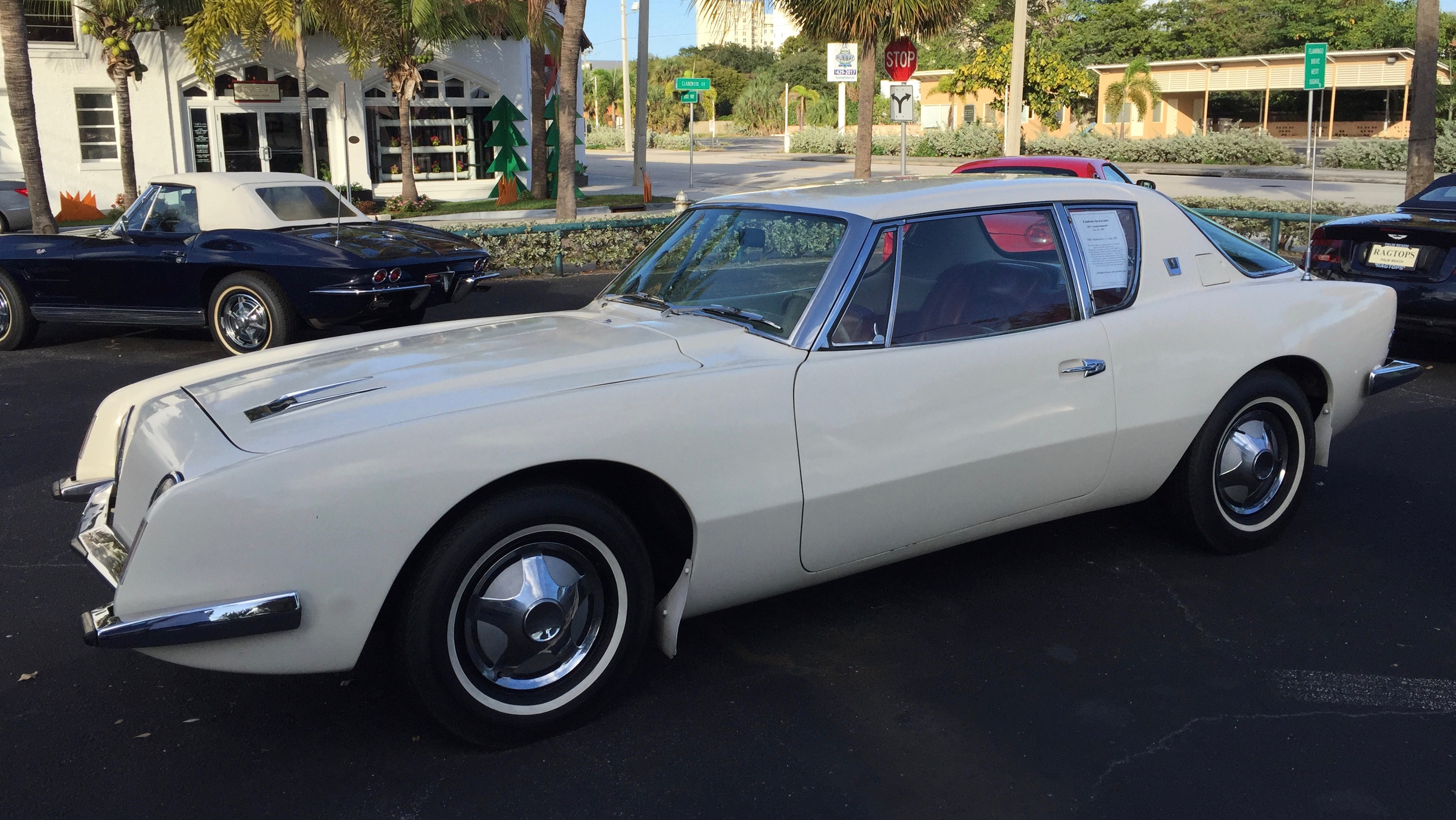 1963 Studebaker Avanti, a four-seat personal-luxury coupe. This car is equipped with the standard "R-1" 289 cu in (4.7 L) 240 hp (179 kW) V8 engine with a 4-speed manual transmission, as well as the optional factory air conditioning. This car's fiberglass body is finished in white with a red bucket seat interior. Photograph taken in West Palm Beach, Florida.